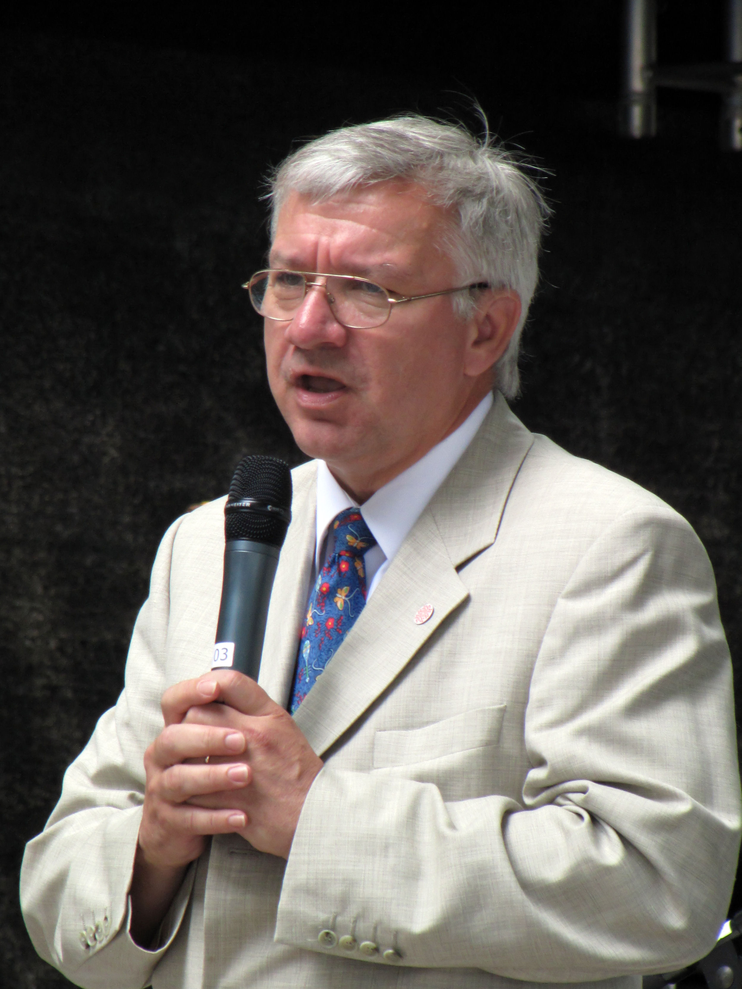 Prof. Dr. Joachim Hofmann-Göttig, mayor of Koblenz since 2010